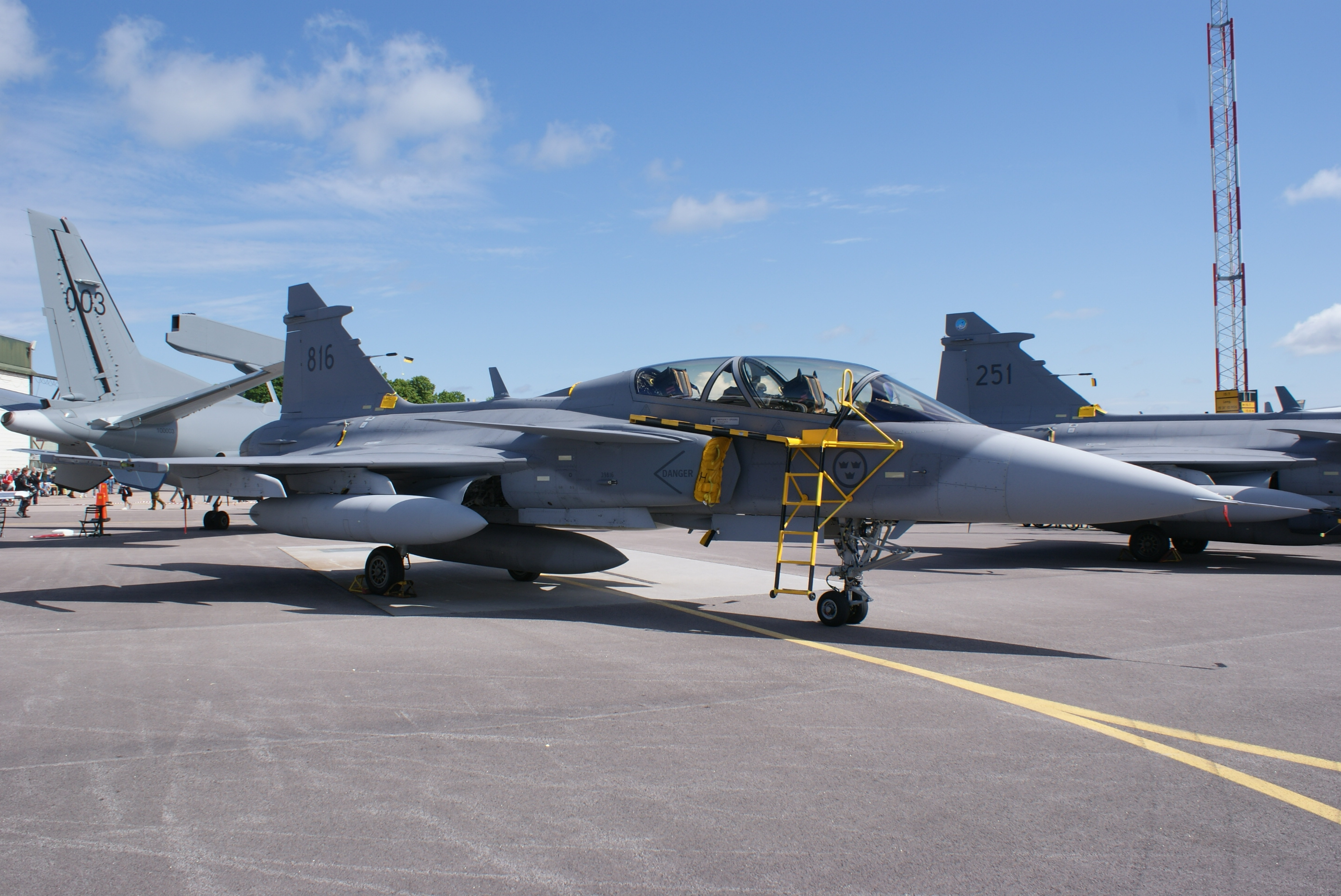 JAS 39D Gripen